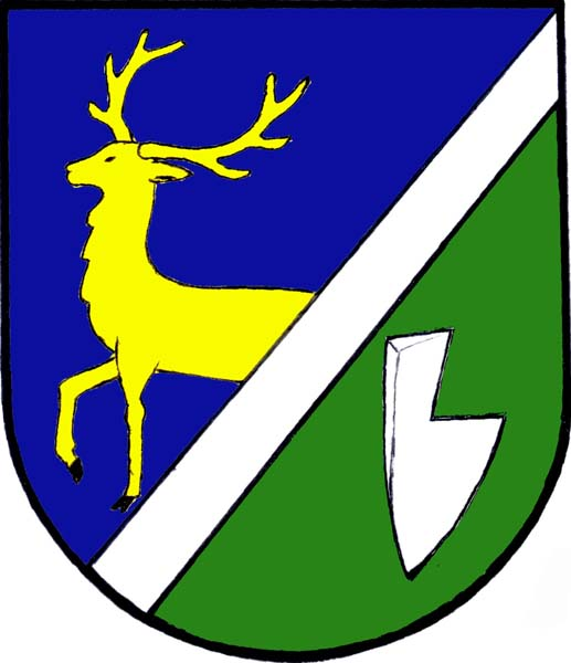 Municipal coat of arms of Račice-Pístovice village, Vyškov District, Czech Republic.